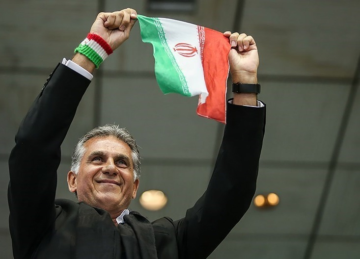 Iran national football team offs to Brazil for World Cup